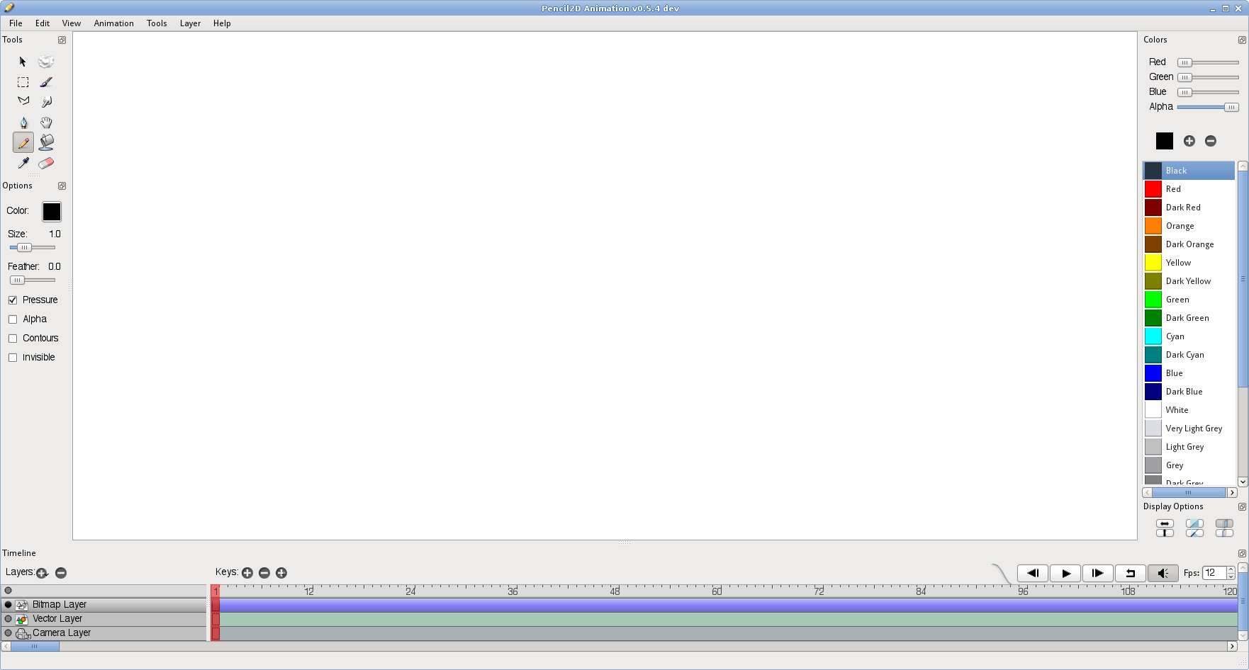 Screenshot of Pencil2D v0.5.4 running on GNU/Linux